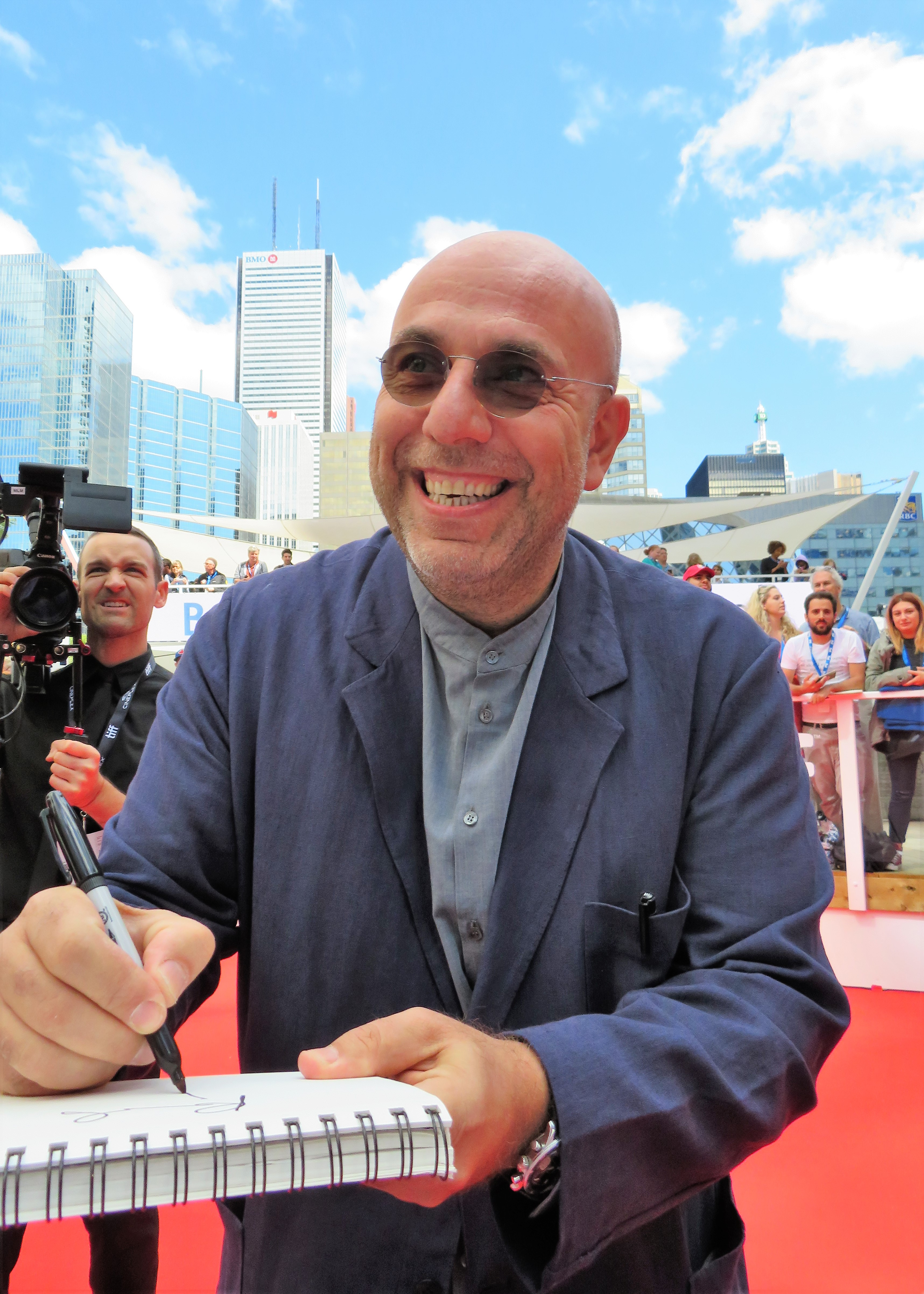 Director Paolo Virzi at the premiere of The Leisure Seeker, 2017 Toronto Film Festival